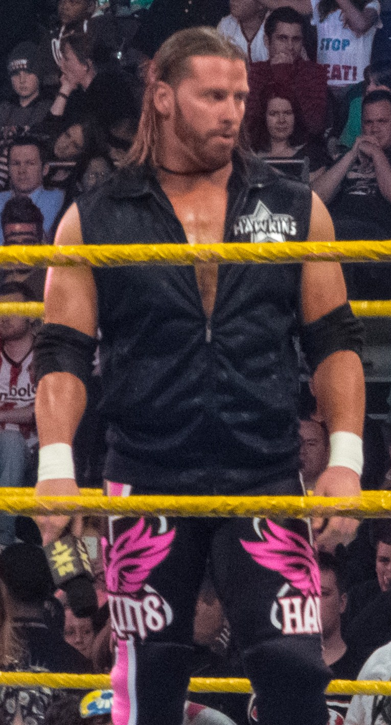 WWE star Curt Hawkins at a WWE NXT taping in London, England on 17 April 2012.